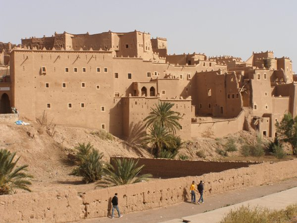 (see file name).